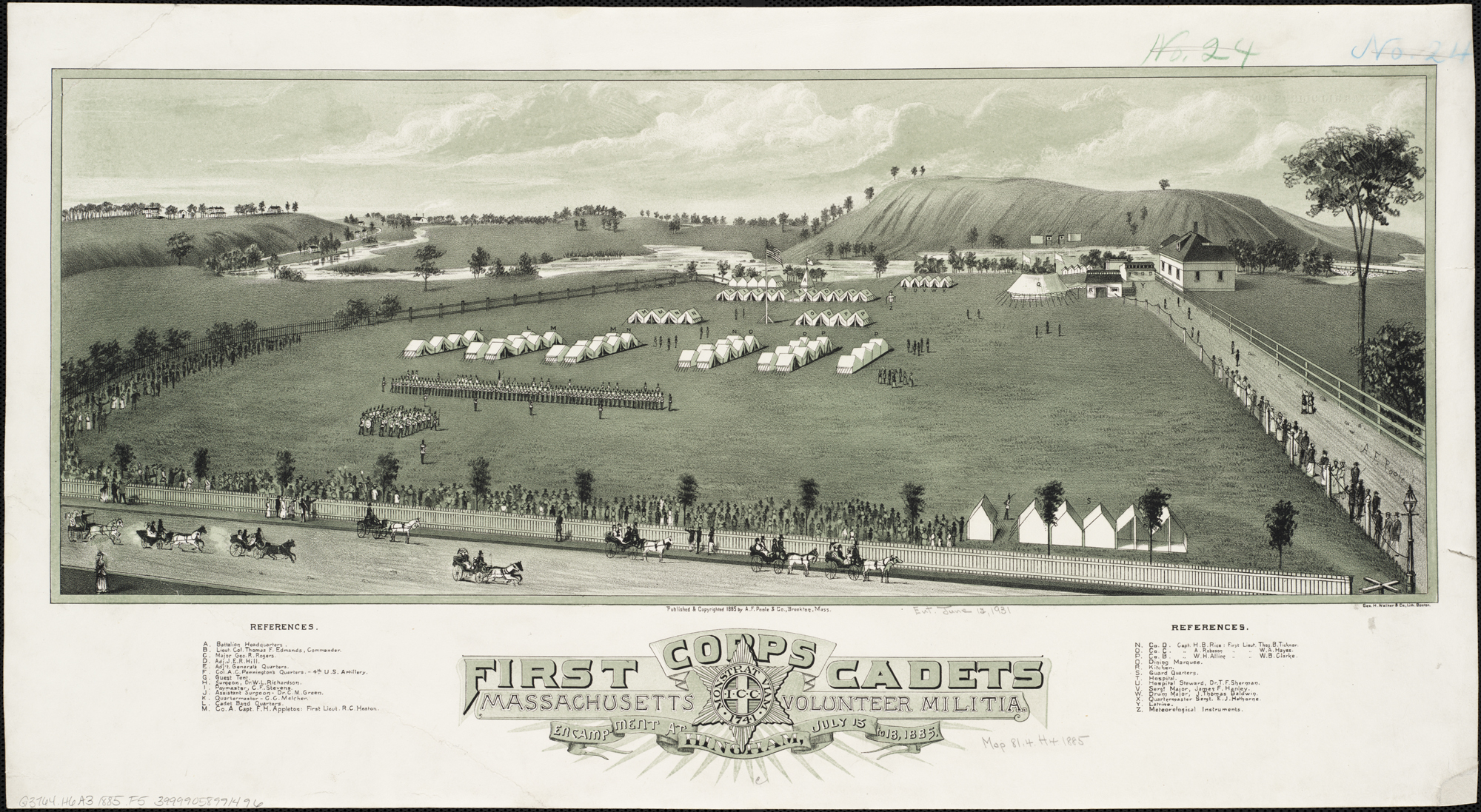 Encampment at Hingham, 1885. Zoom into this map at . Publisher: A.F. Poole & Co. Date: 1885. Location: Massachusetts Scale: Not drawn to scale. Call Number: G3764.H6A3 1885.F5